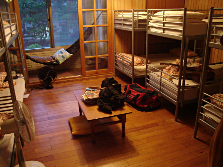 Formosa Backpackers Hostel dorm room in Taiwan (from Wiki licensed under the GFDL and Creative Commons as described elsewhere on this page. PLEASE NOTE THAT YOU MUST CREDIT IF YOU REUSE THIS PHOTO.)